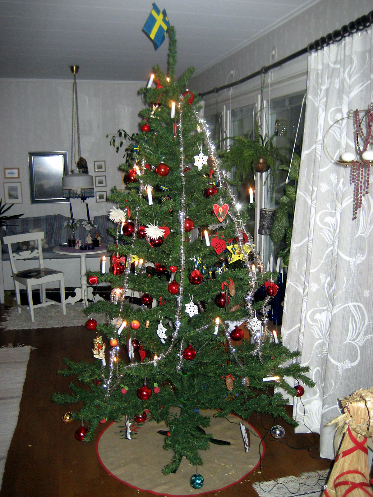 A Christmas tree in a home in Sweden.